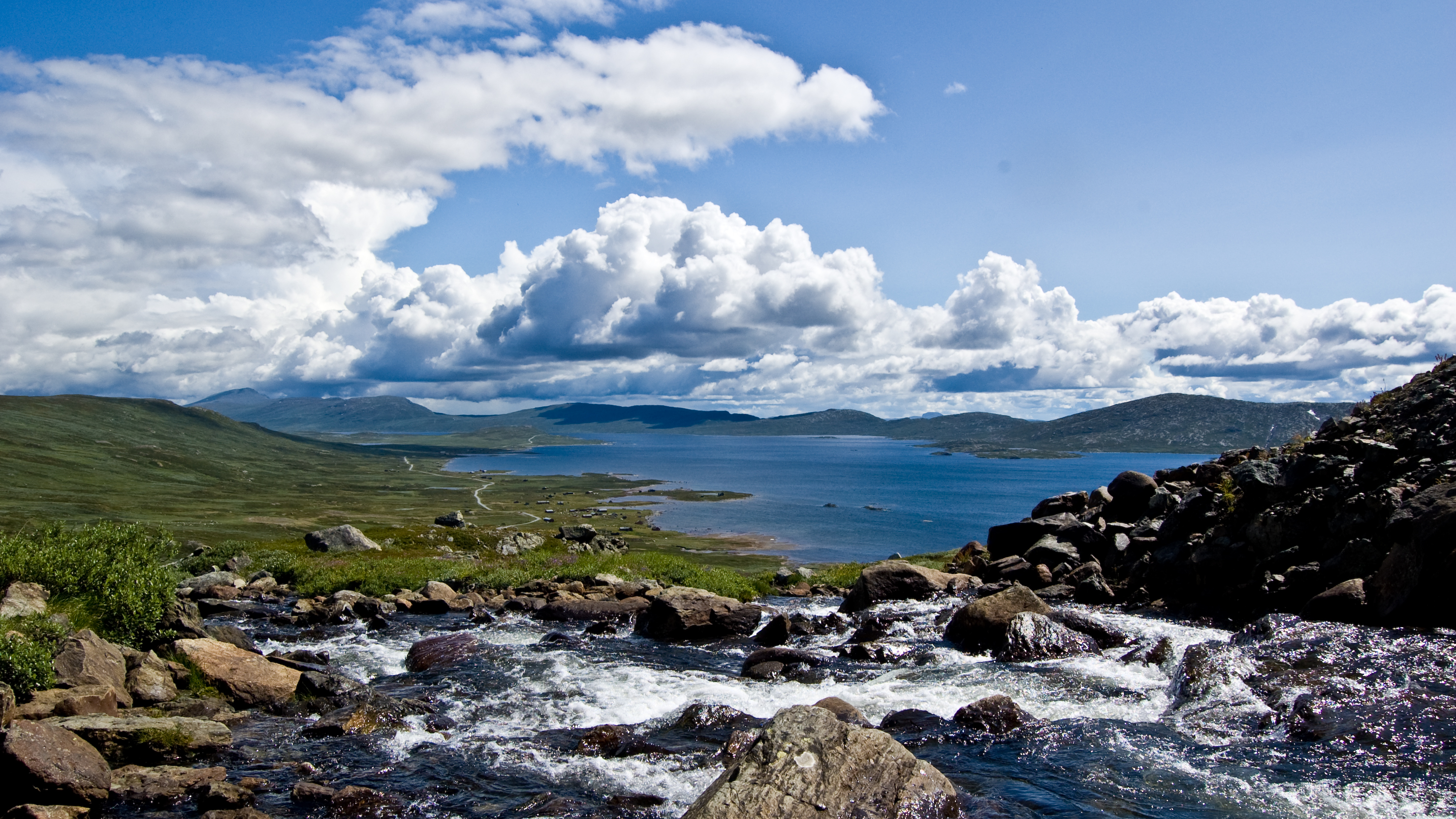 Jotunheimen is a mountainous area of roughly 3,500 km² in Southern Norway. Jotunheimen is a part of the long Scandinavian Mountains range. The 29 highest mountains in Norway are in Jotunheimen, including the very highest - Galdhøpiggen (2469 m). Jotunheimen straddles the border of the counties Oppland and Sogn og Fjordane.